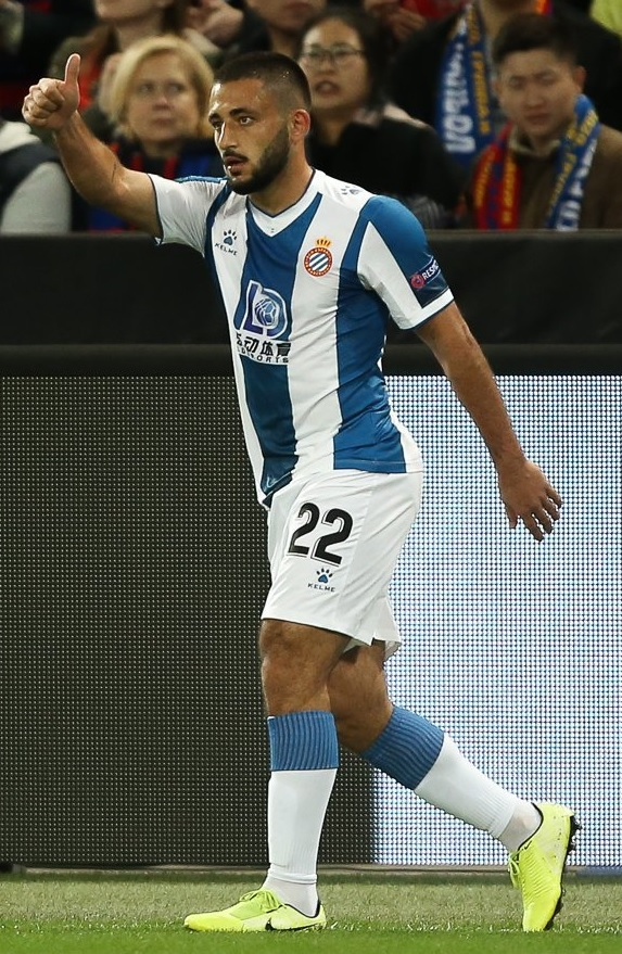 Matías Vargas with RCD Espanyol in an Europa League game against PFC CSKA Moscow.